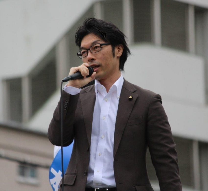 Japanese politician Kota Matsuda